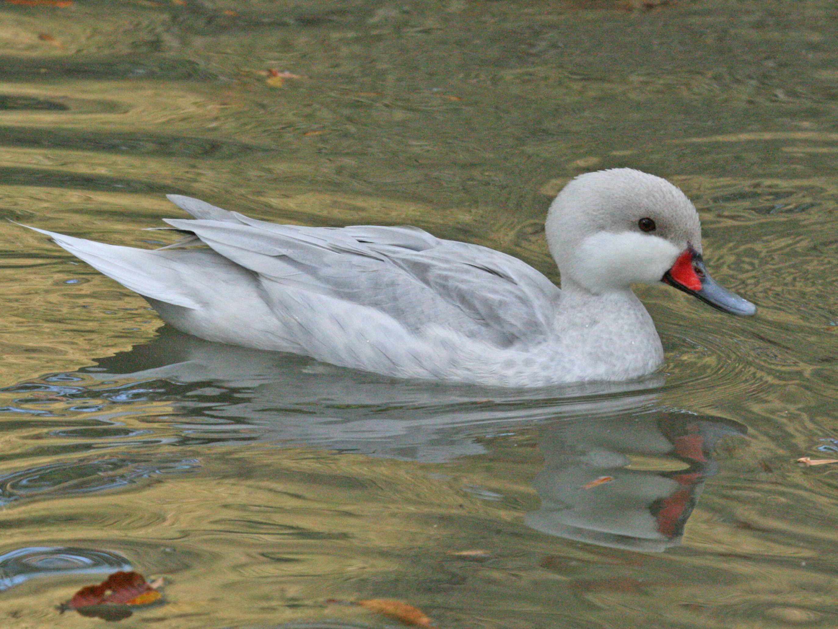 White-cheeked_Pintail (Anas bahamensis) at Sylvan Heights Waterfowl Park in North Carolina, USA. This is a white morph.